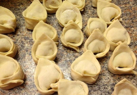 Chuchvara before boiling